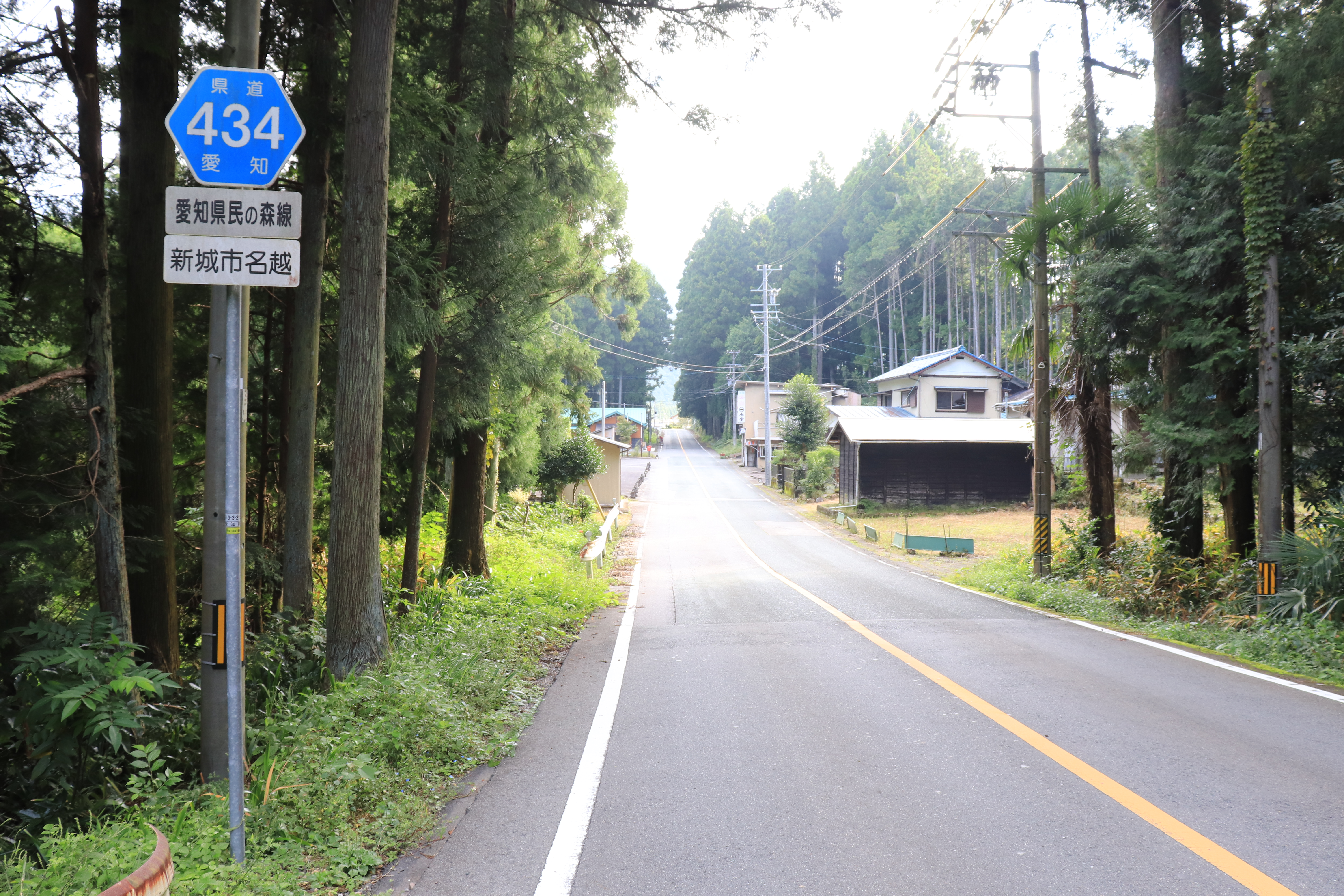 Aichi Prefectural Road Route 434 in Nakoe-Sakashita, Shinshiro, Aichi Prefecture, Japan.Canon EOS Kiss X9